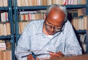 T. V. Venkatachala Sastry in his personal study